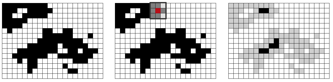 Example of morphological erosion on binary picture.